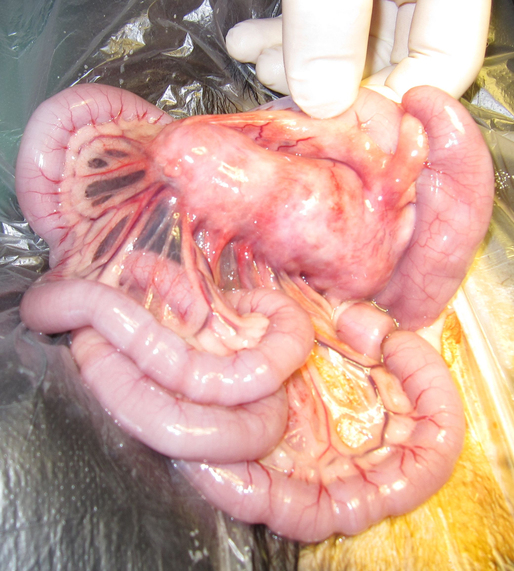 lymphosarcoma in the mesenterium at the ileocolic junction due to feline leucaemia